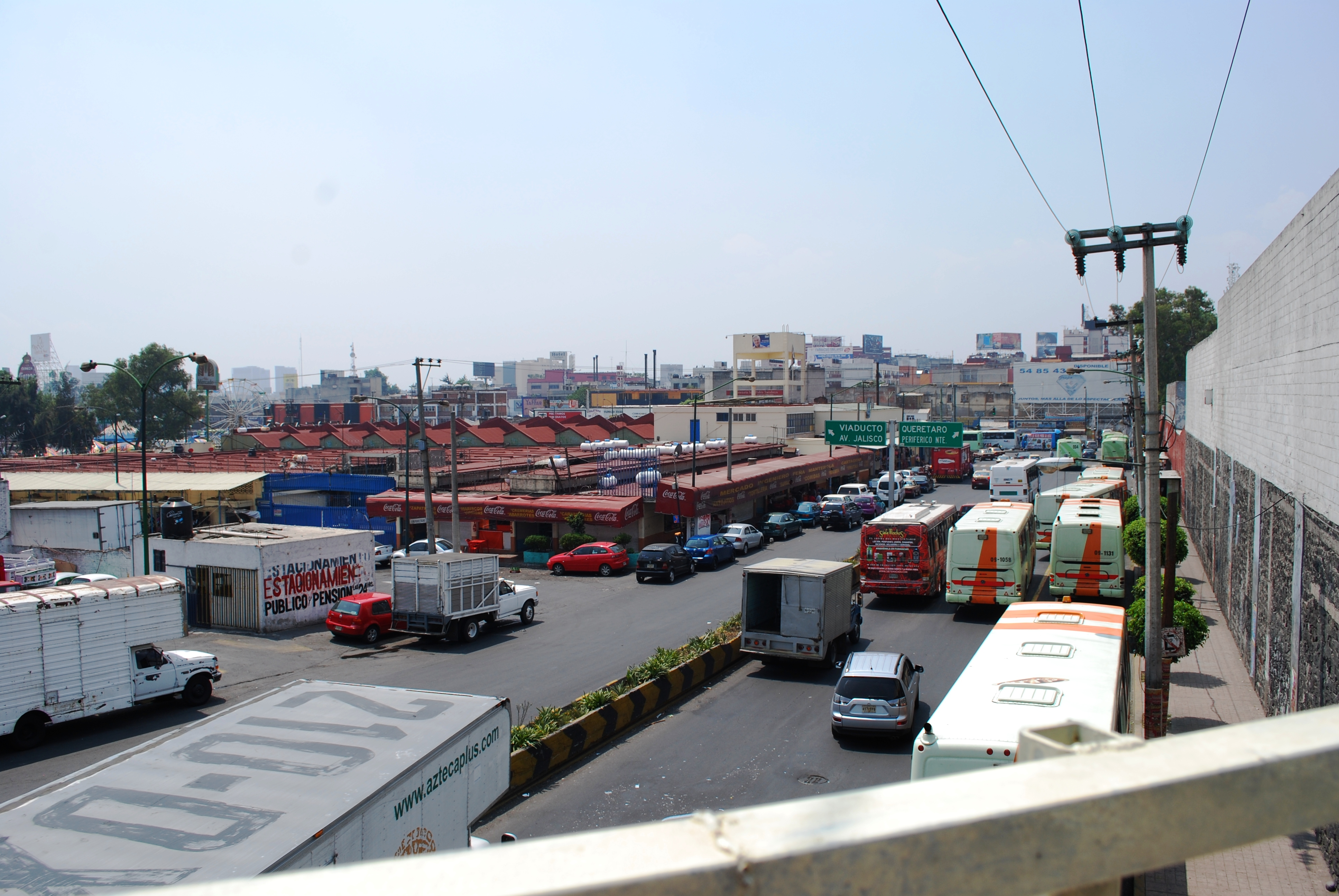 Overlooking the market area from the pedestrian bridge on Avenida Observatorio in Tacubaya, Mexico City